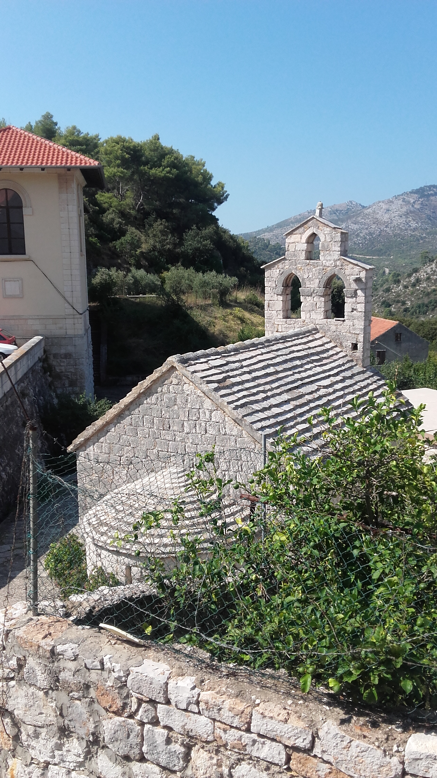 Lovely image of an old church in the center of Lastovo.